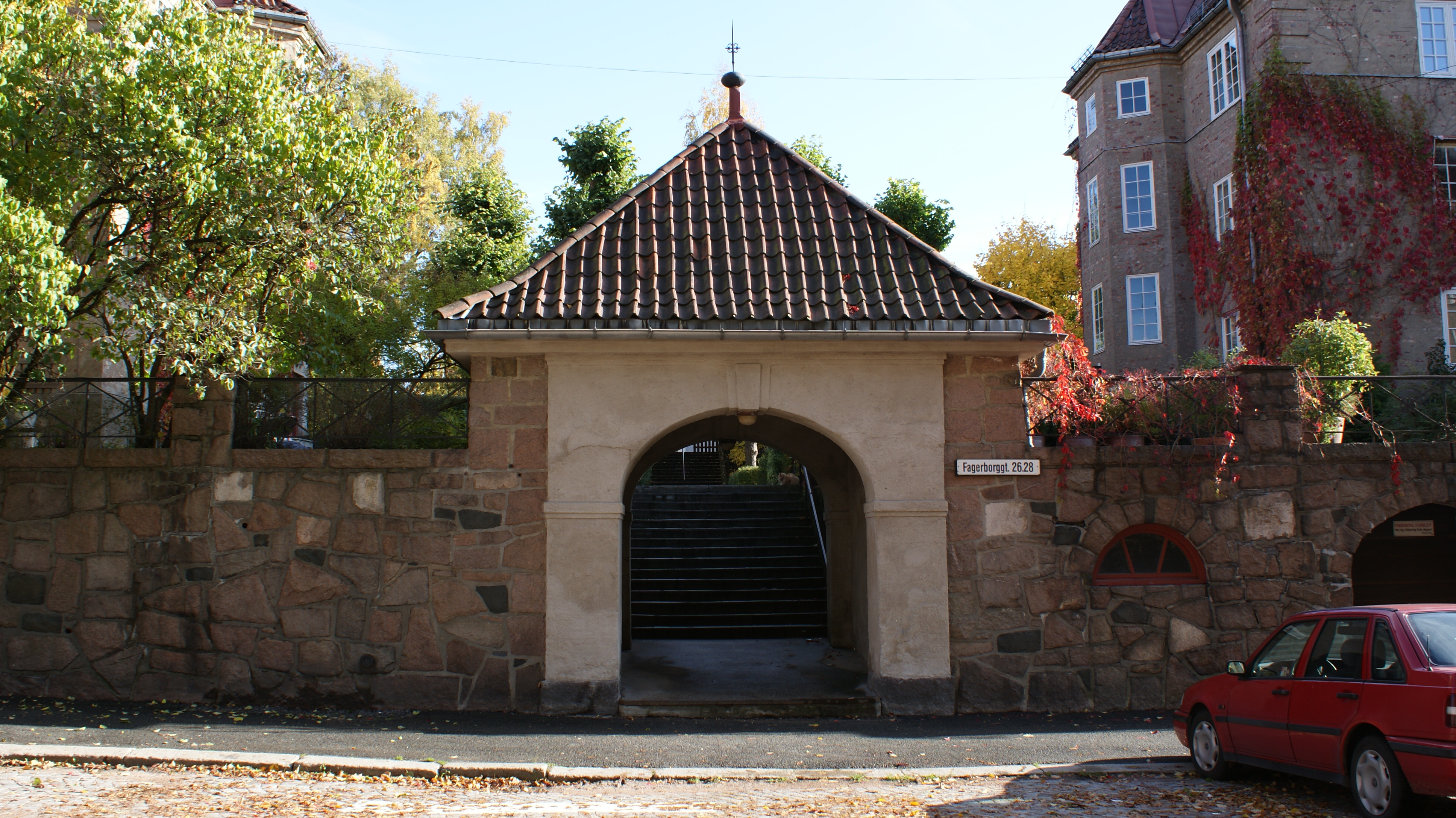 Hertzbergs gate, Fagerborg, St. Hanshaugen, Oslo. The street name plaque may be misleading: Fagerborggata is actually not visible − it is located behind the park (the gate to which is the subject of the photograph).